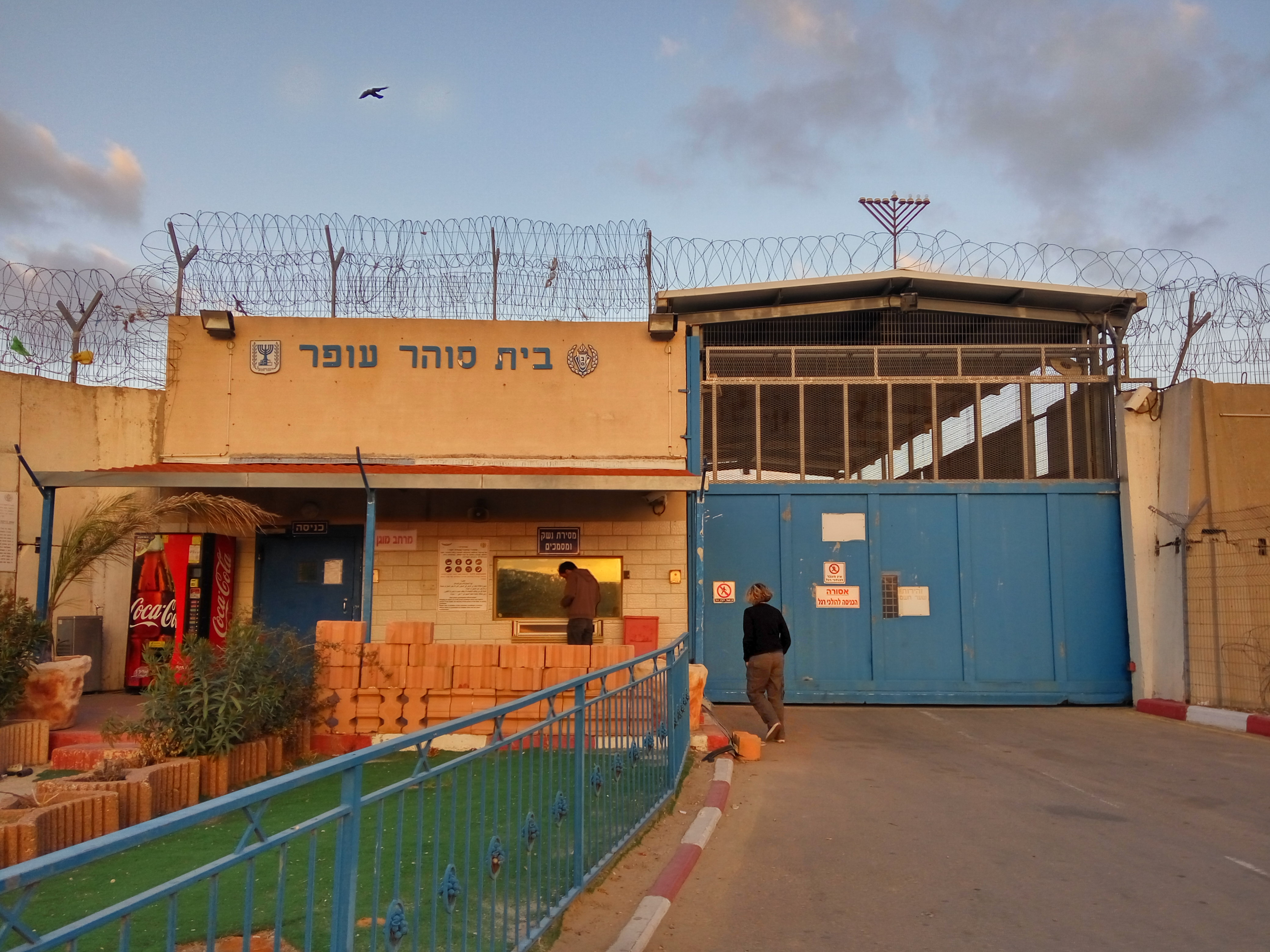 entrance to Ofer prison